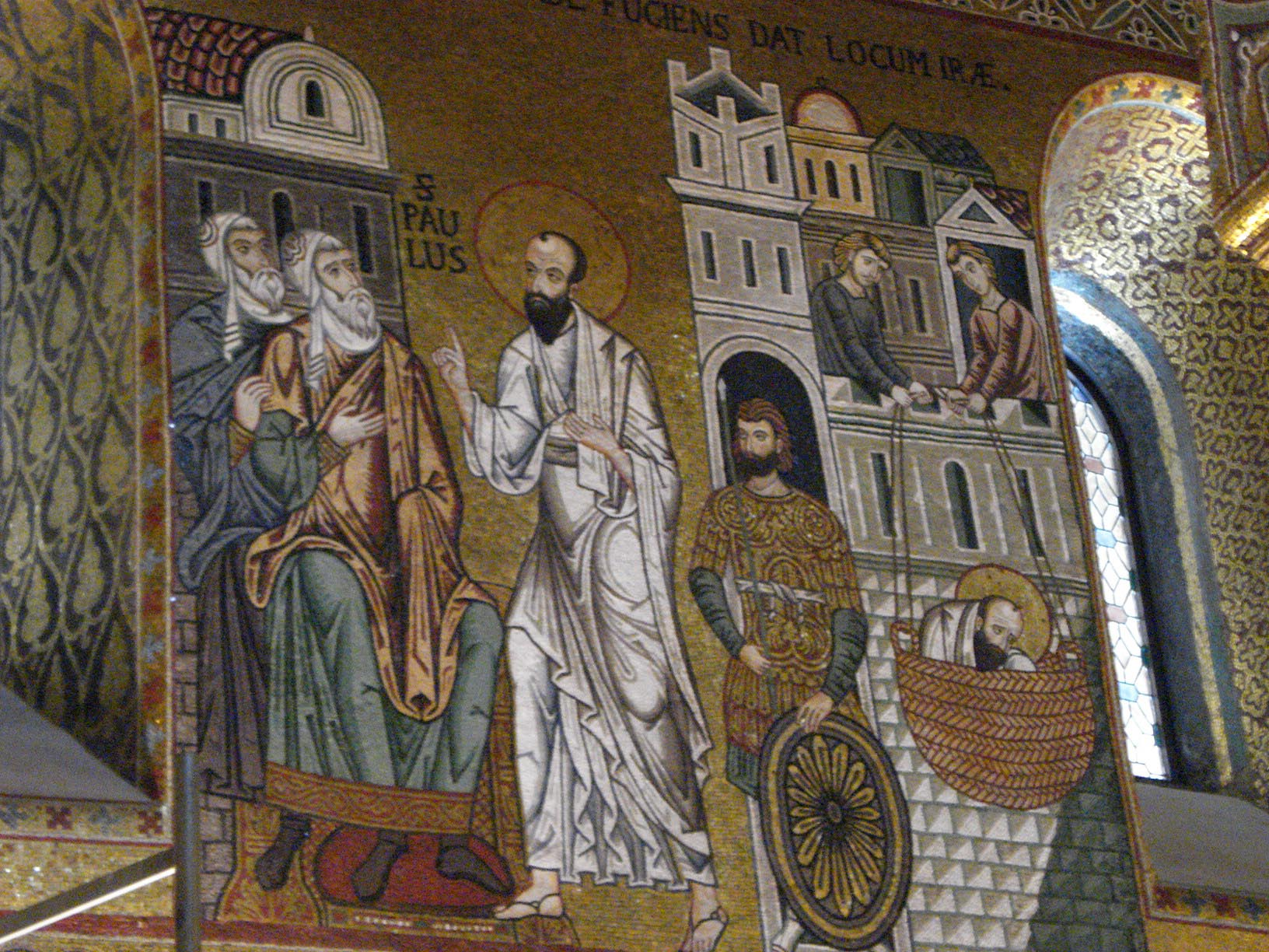 Paul in Damascus